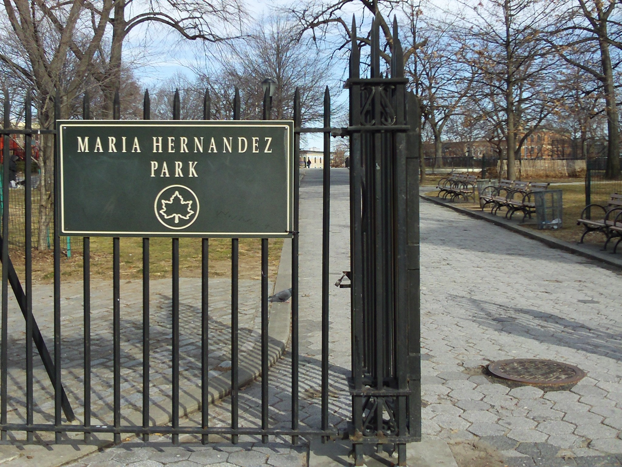 Looking north at Maria Hernandez Park entrance